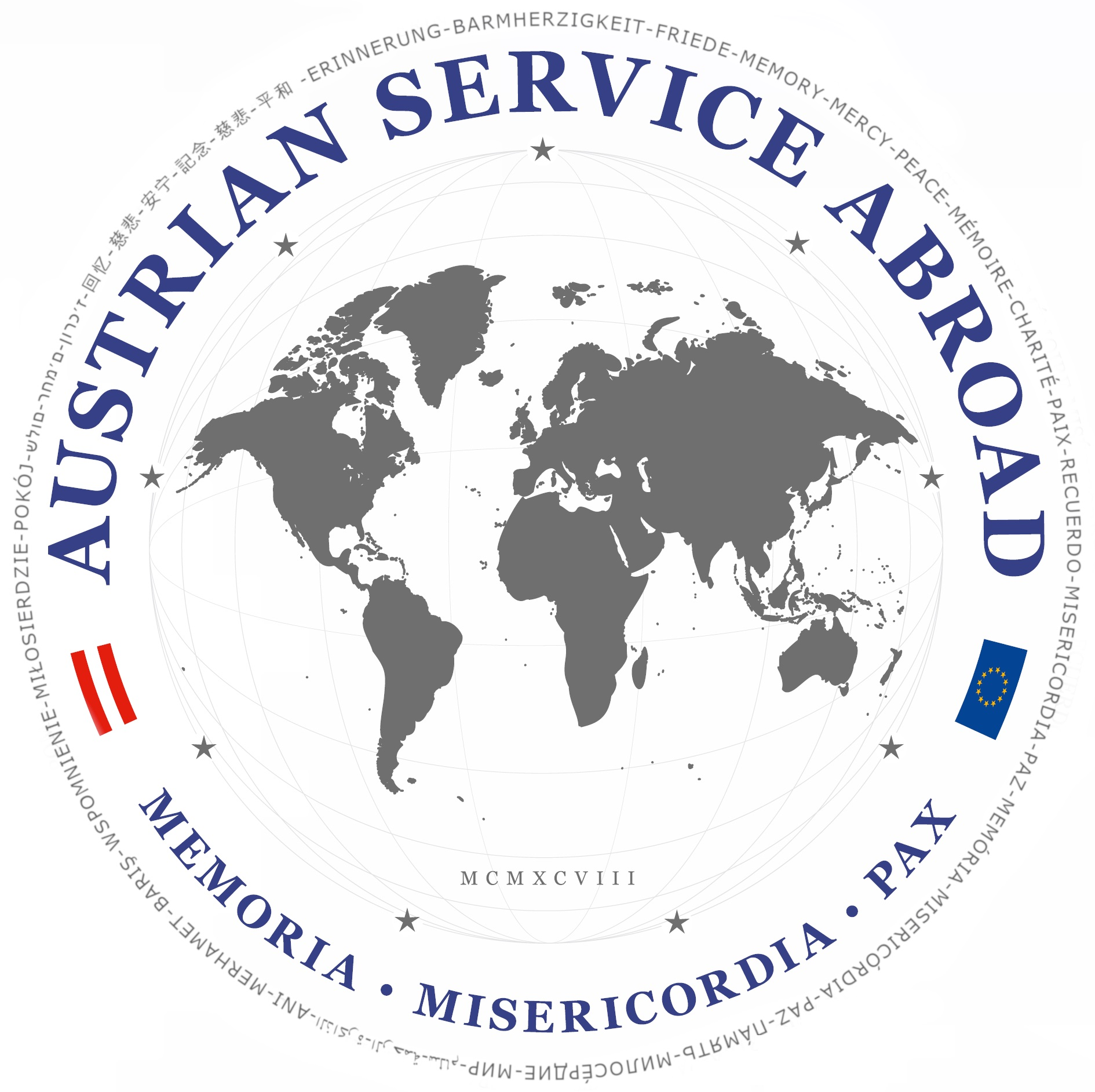 This seal provides a symbolic representation of the ideas and structures of the Austrian Service Abroad.